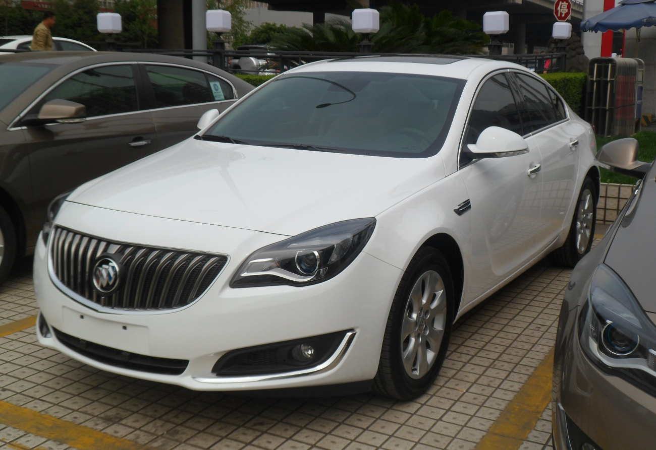 Buick Regal CN II facelift photographed in Chengdu, Sichuan province, China.